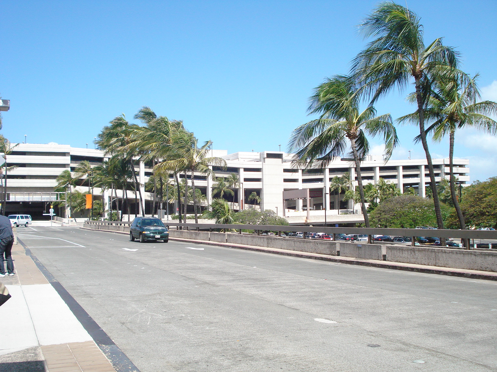 Honolulu International Airport's Inter-island Terminal